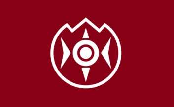 Flag of Miyako Iwate